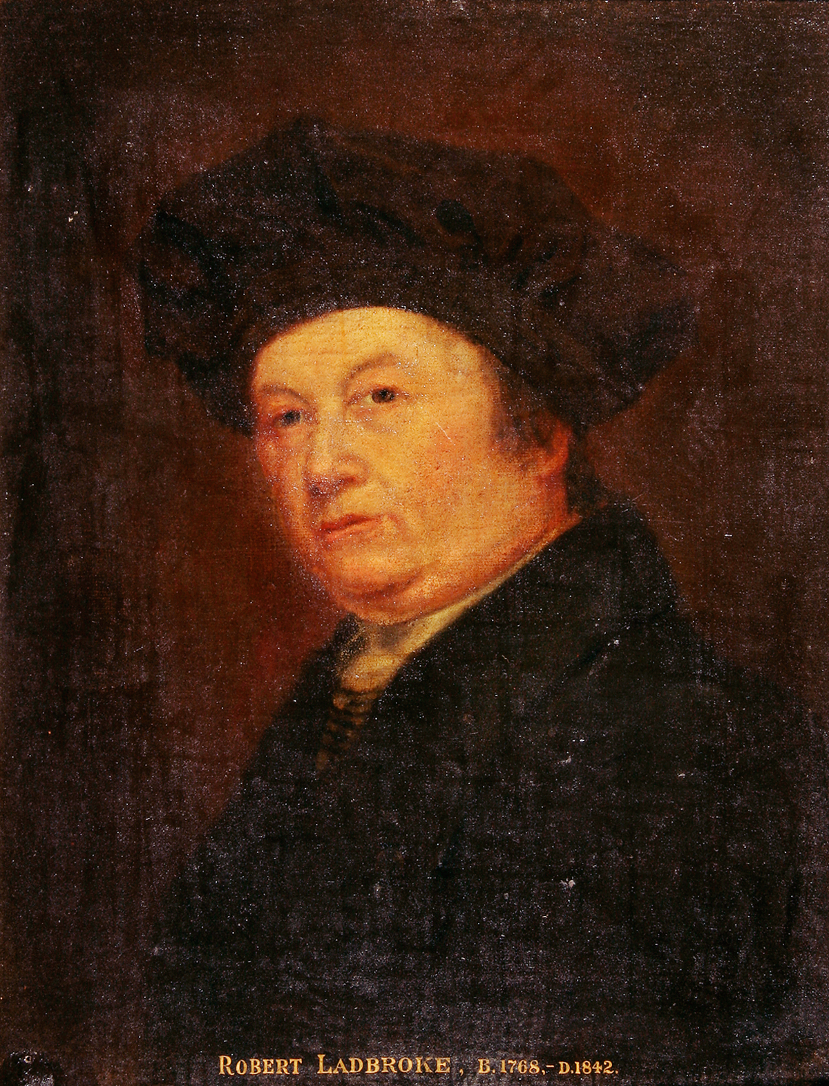 Painting of Robert Ladbrooke